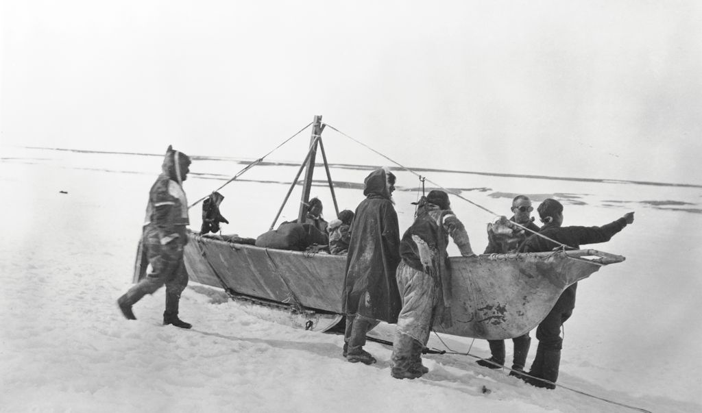 Start of 'Umiak' survey party for Coronation Gulf, (as seen in 38718 but closer) J.R. Cox, J.J. O'Neill, and others, Bernard Harbour, N.W.T (Nunavut). Men carrying umiak hunting boat.